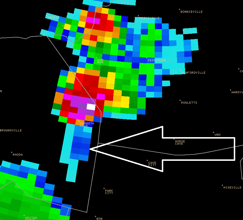 A three body scatter spike is seen here on the weather radar data south of thunderstorm near Mammoth Cave. This feature has been shown to be associated with very large hail within thunderstorms. The radar image here was taken at 2:38 PM EDT at an altitude of about 20,000 feet, and about 19 minutes later one inch diameter hail was reported in Kessinger in Hart County. The arrow point to the feature